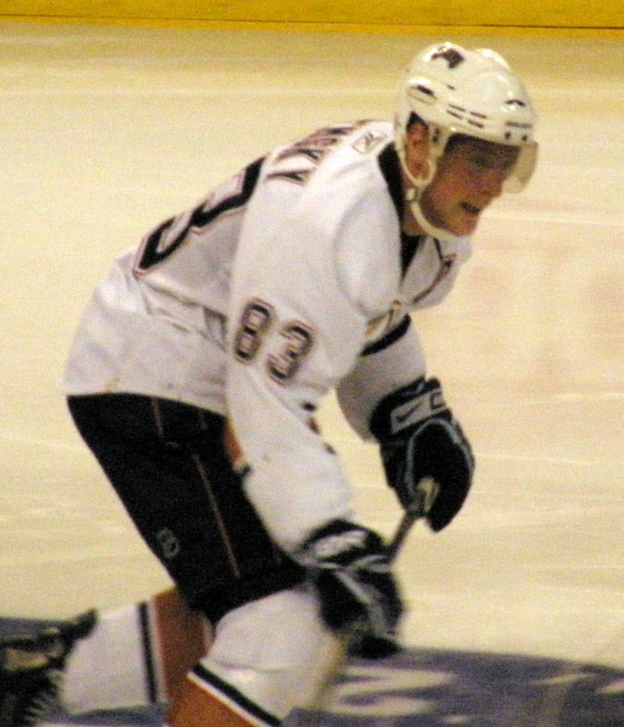 Ales Hemsky in 20009